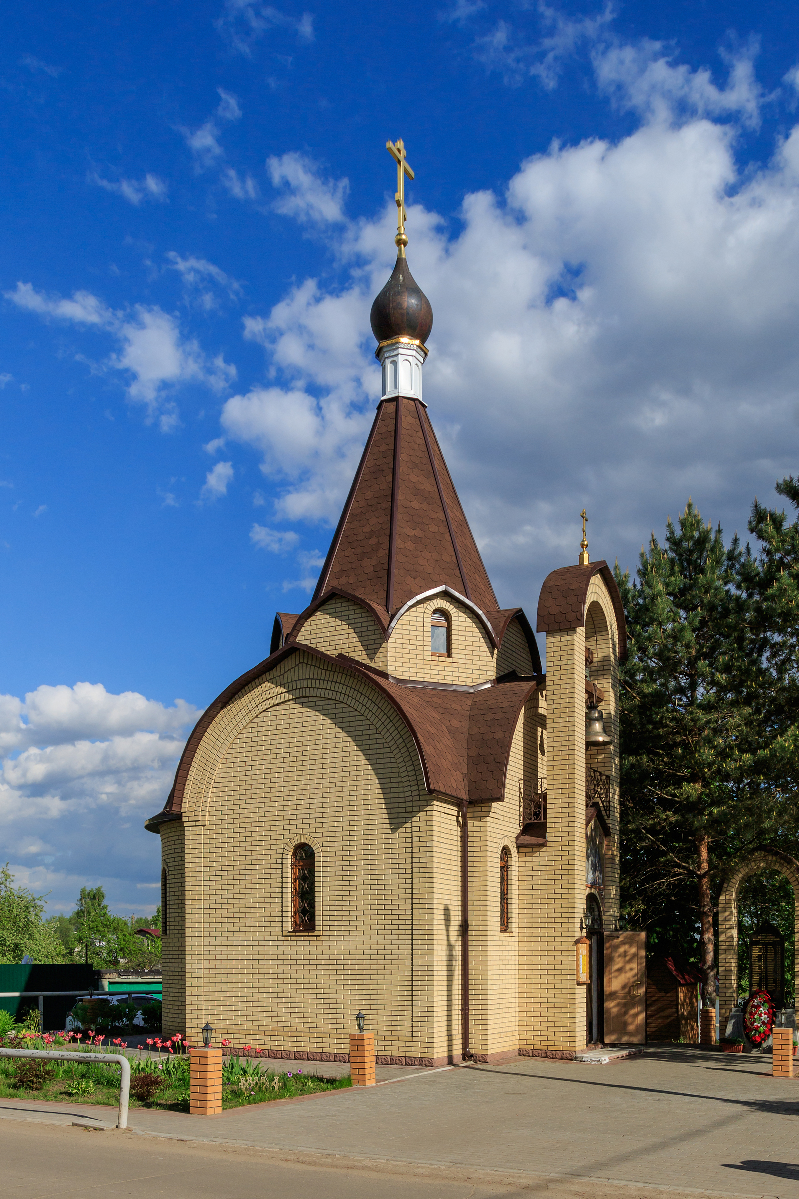 Church of St. John the Baptist in Kalinovka, near Domodedovo, Moscow Oblast (Russia).